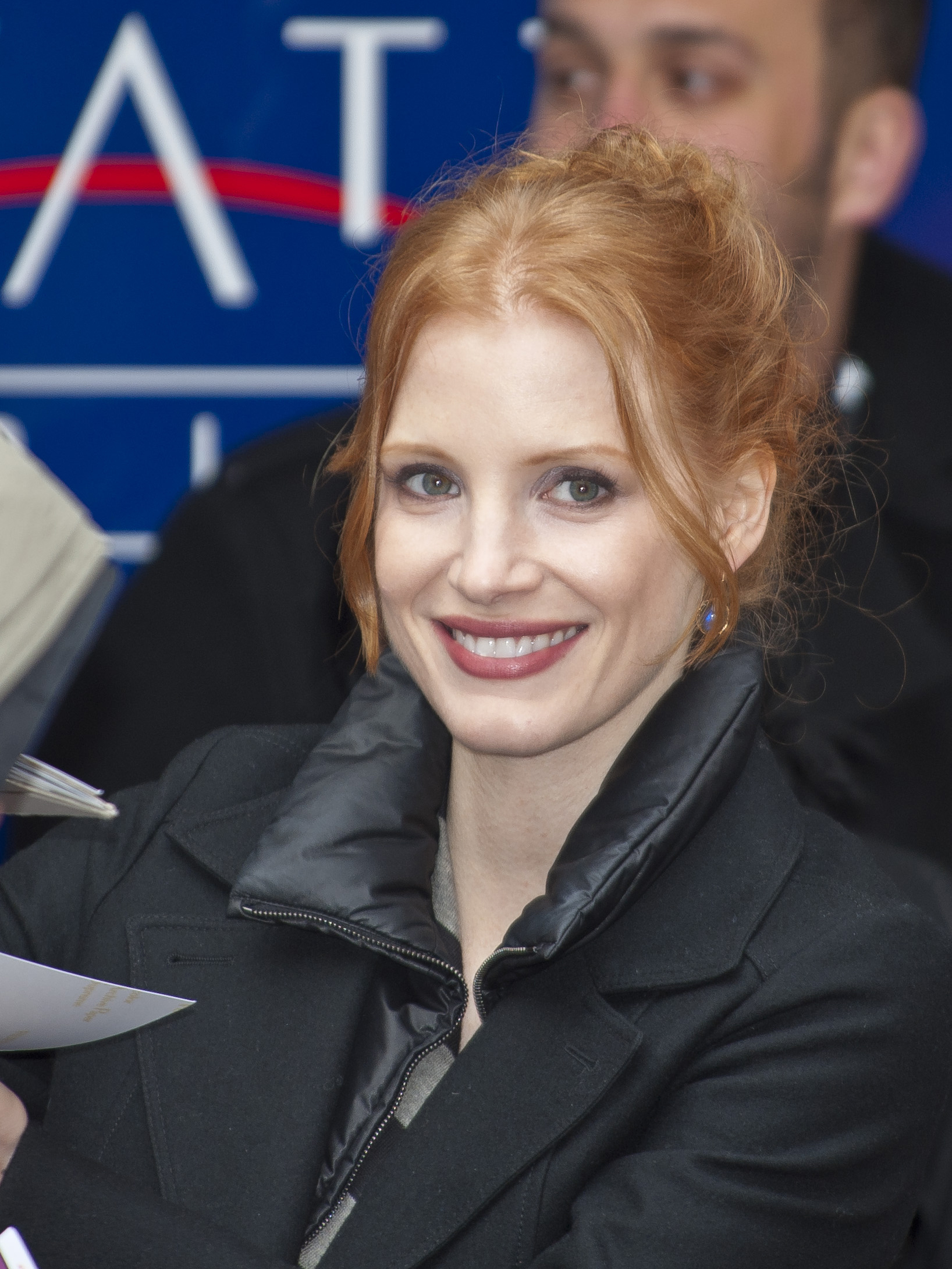 American film and television actress Jessica Chastain at the press conference for the film Coriolannus.